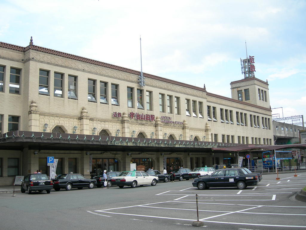 Ujiyamada station at Ise city, Mie prefcture, Japan.